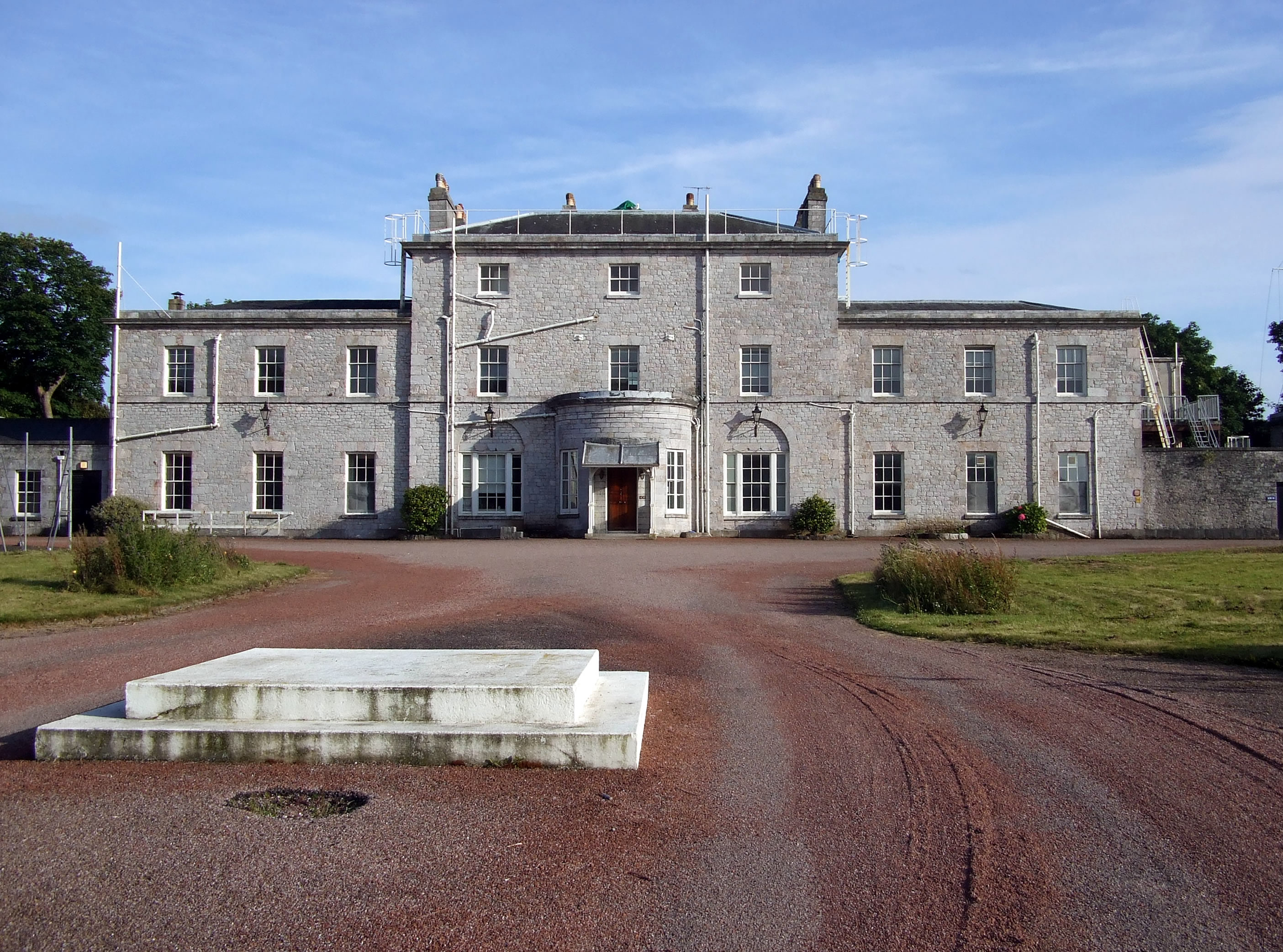 A picture of Admirality House at Mountwise, Devonport. It was built in 1820 as the private residence and military offices of the Lieutenant-Governor of the Plymouth Garrison.